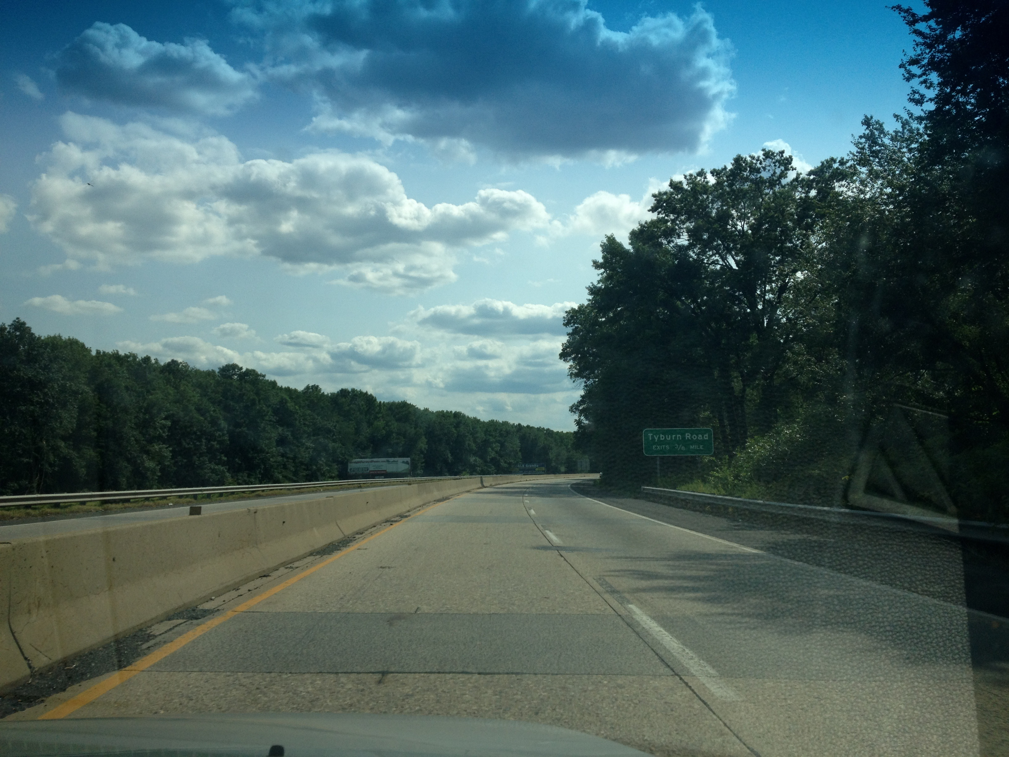 Southbound U.S. Route 13 3/8 mile from the interchange with Tyburn Road in Falls Township, Pennsylvania